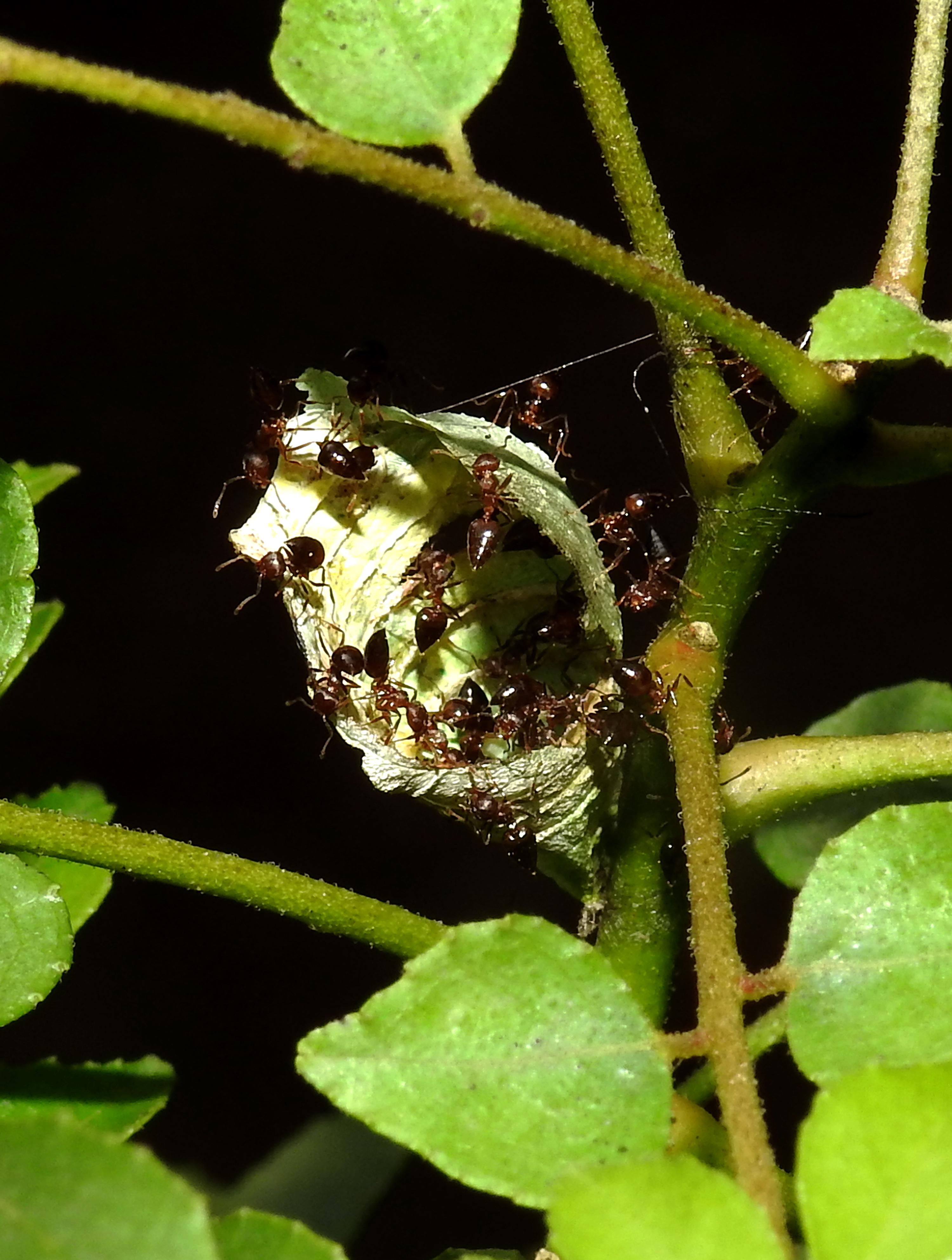 Predation on pupa of Common Mormon Papilio polytes butterfly by ants. At BNHS Nature Reserve, Mumbai, Maharashtra